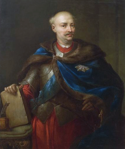 Stanisław Antoni Świdziński